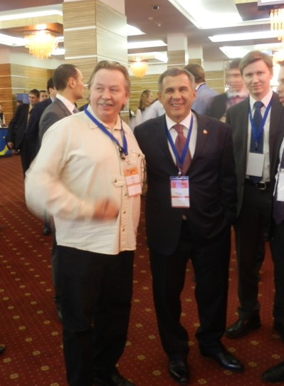 Alexey Karaev and Rustam Minnikhanov at 7'th Kazan Venture Fair. Alexey Karaev presented an exposition of the exhibition "The elusive reality" - the art of nanotechnology. The exhibition features the world's first paintings were created by using fluorescent dye-based semiconductor quantum dots.